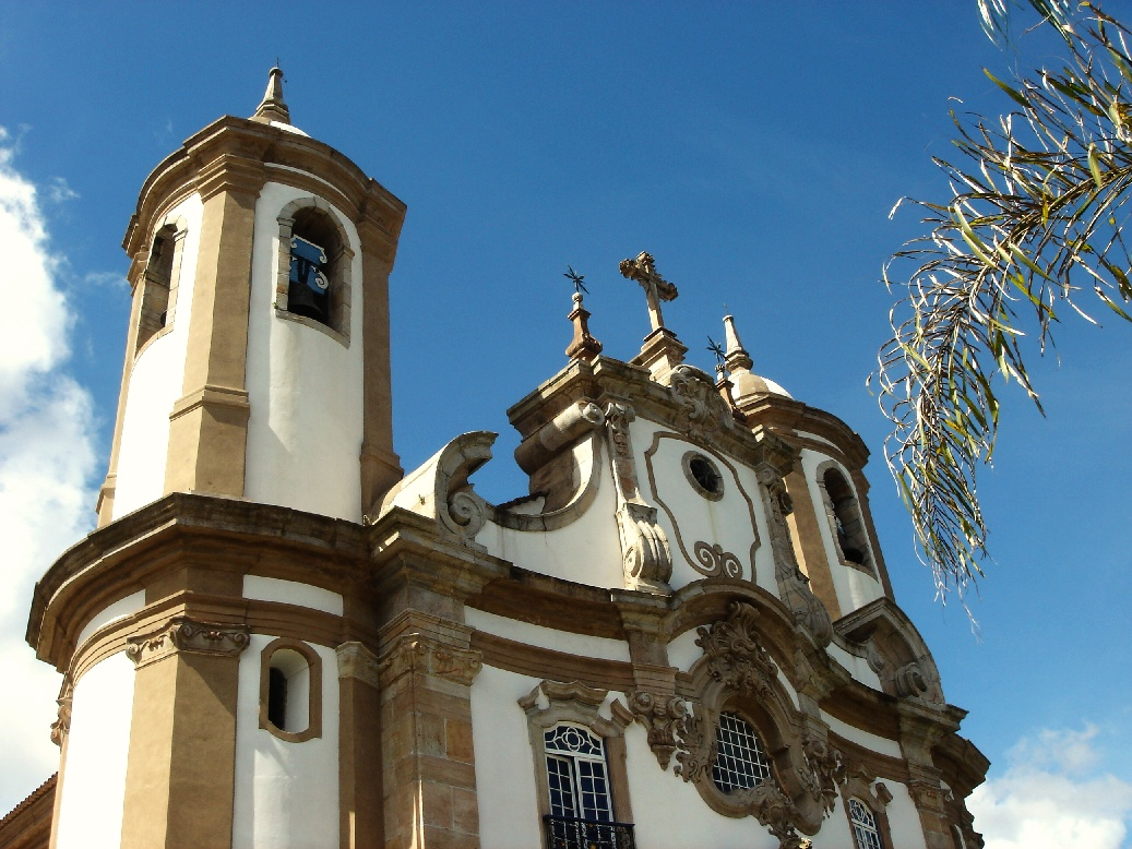 Igreja Nossa Senhora do Carmo